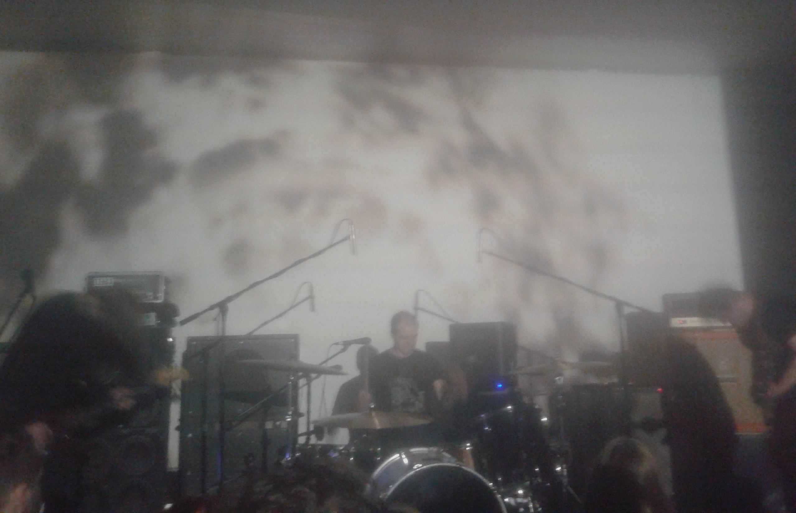 Post-metal band Tesa in 2015.